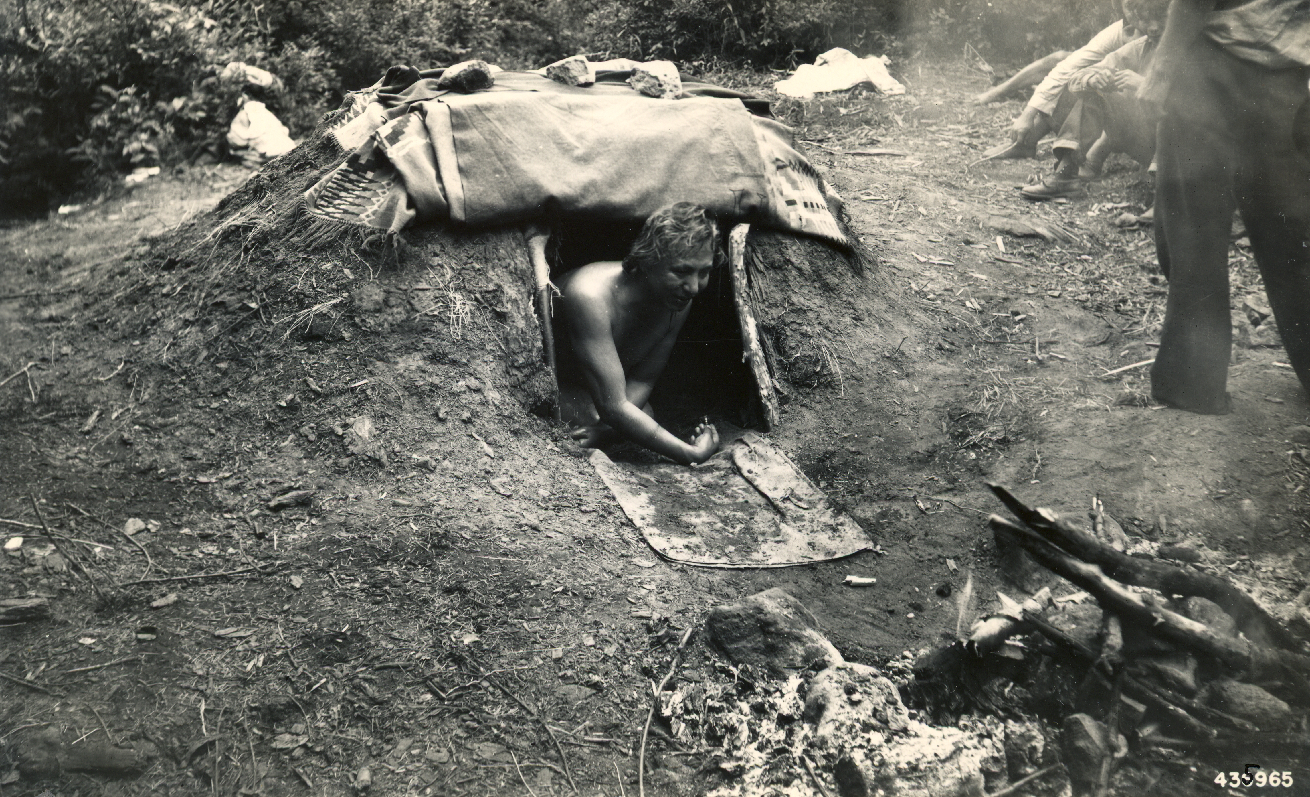 Description/Notes: U.S. Forest Service photo #435965. Original Collection: Gerald W. Williams Collection Item Number: WilliamsG:USFS435965 You can find this image by searching for the item number by clicking here. Want more? You can find more digital resources online. We're happy for you to share this digital image within the spirit of The Commons; however, certain restrictions on high quality reproductions of the original physical version may apply. To read more about what “no known restrictions” means, please visit the Special Collections & Archives website, or contact staff at the OSU Special Collections & Archives Research Center for details.